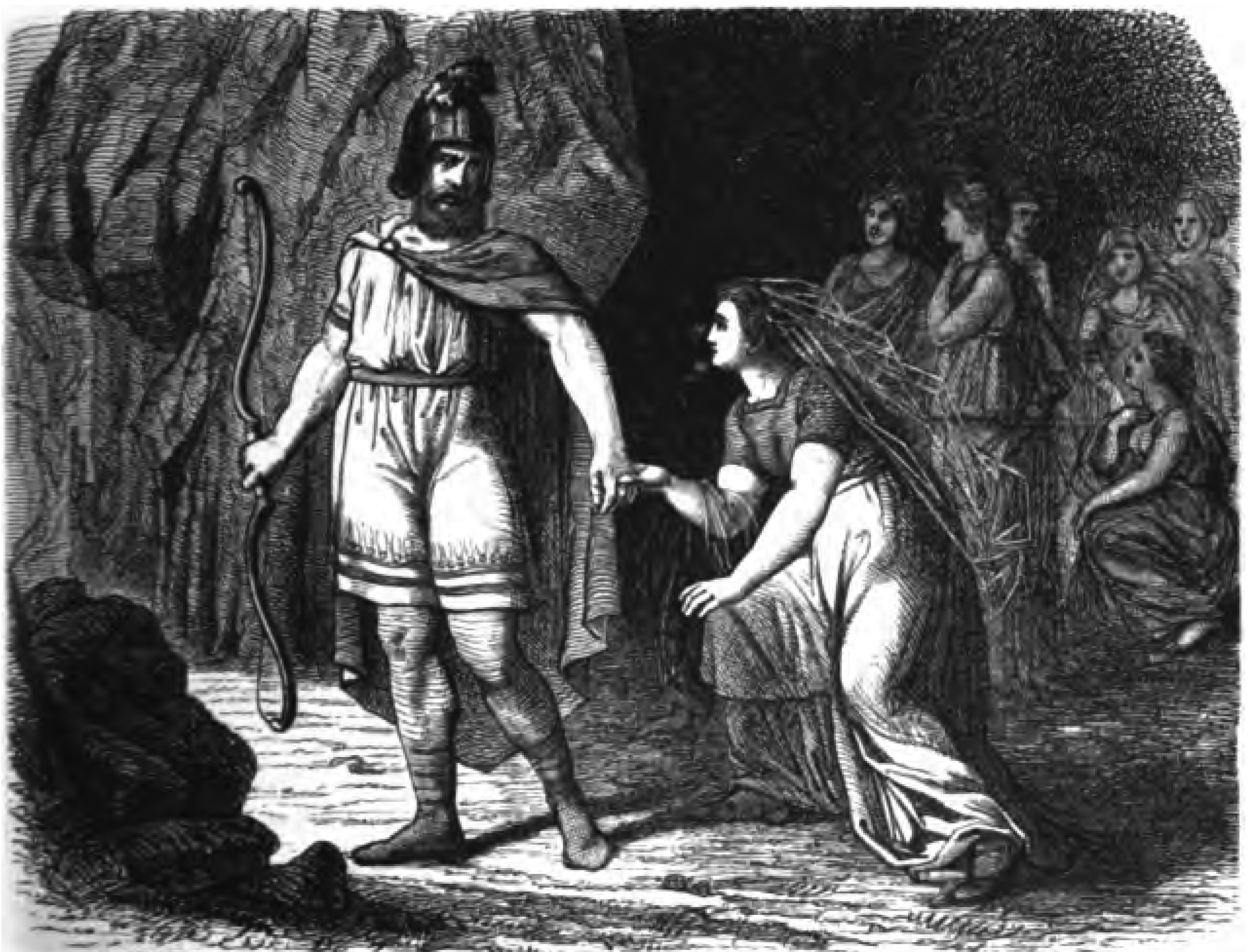 Captioned as "Odur verläßt abermals die trauernde Gattin" (English "Odur leaves the grieving wife once more"), depicting Óðr leaving Freyja.